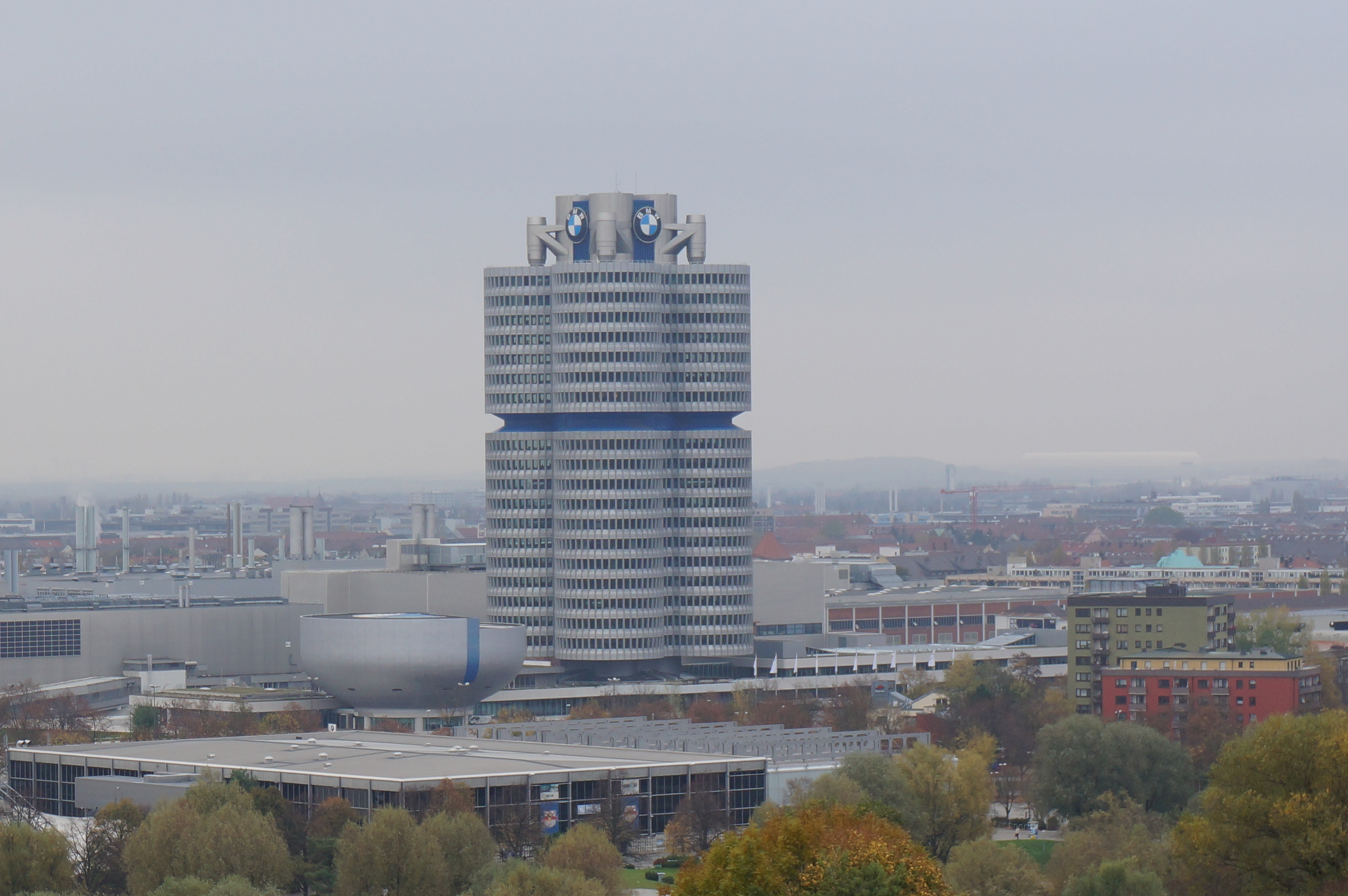 BMW Headquarters in munich